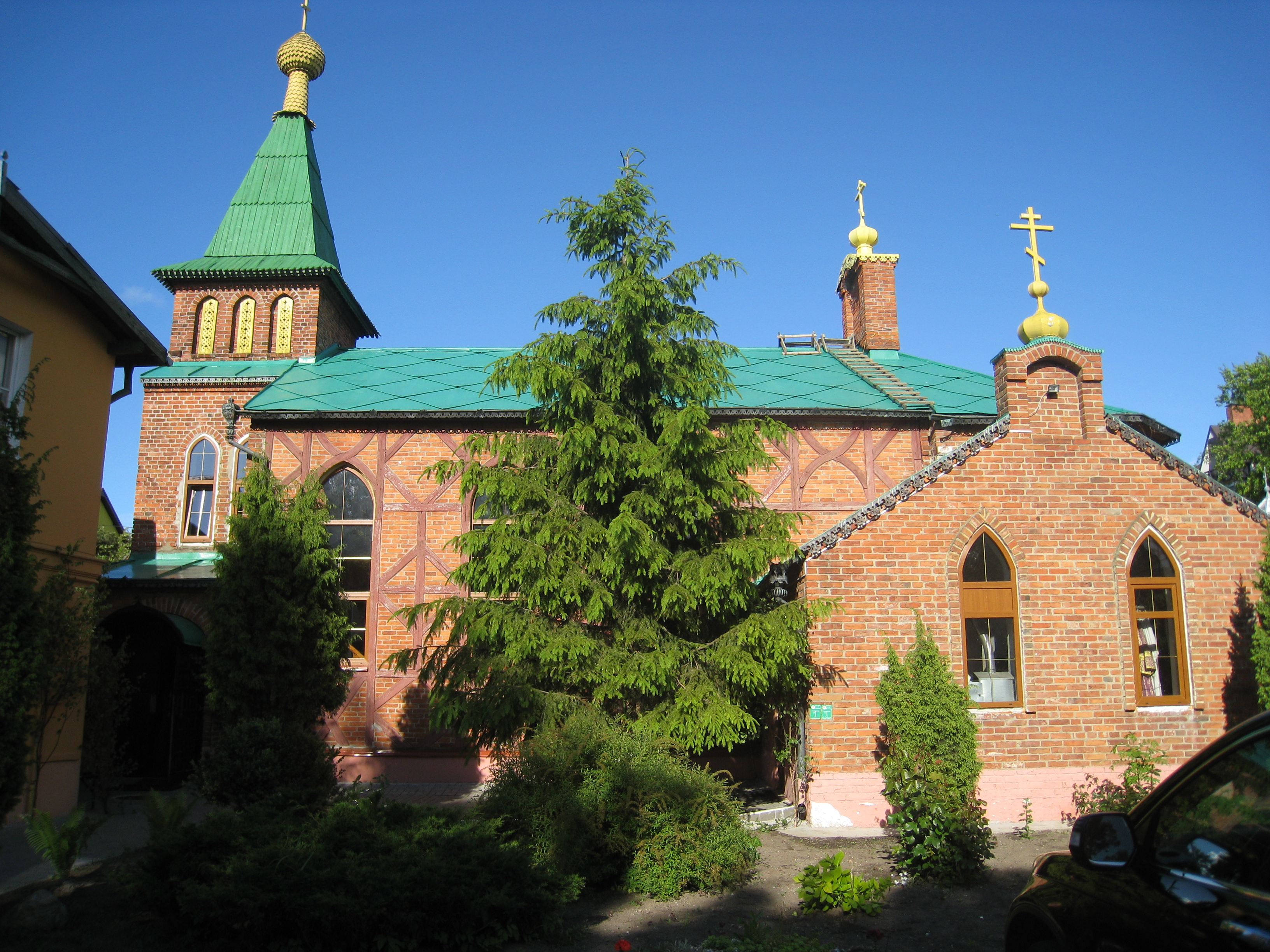 church